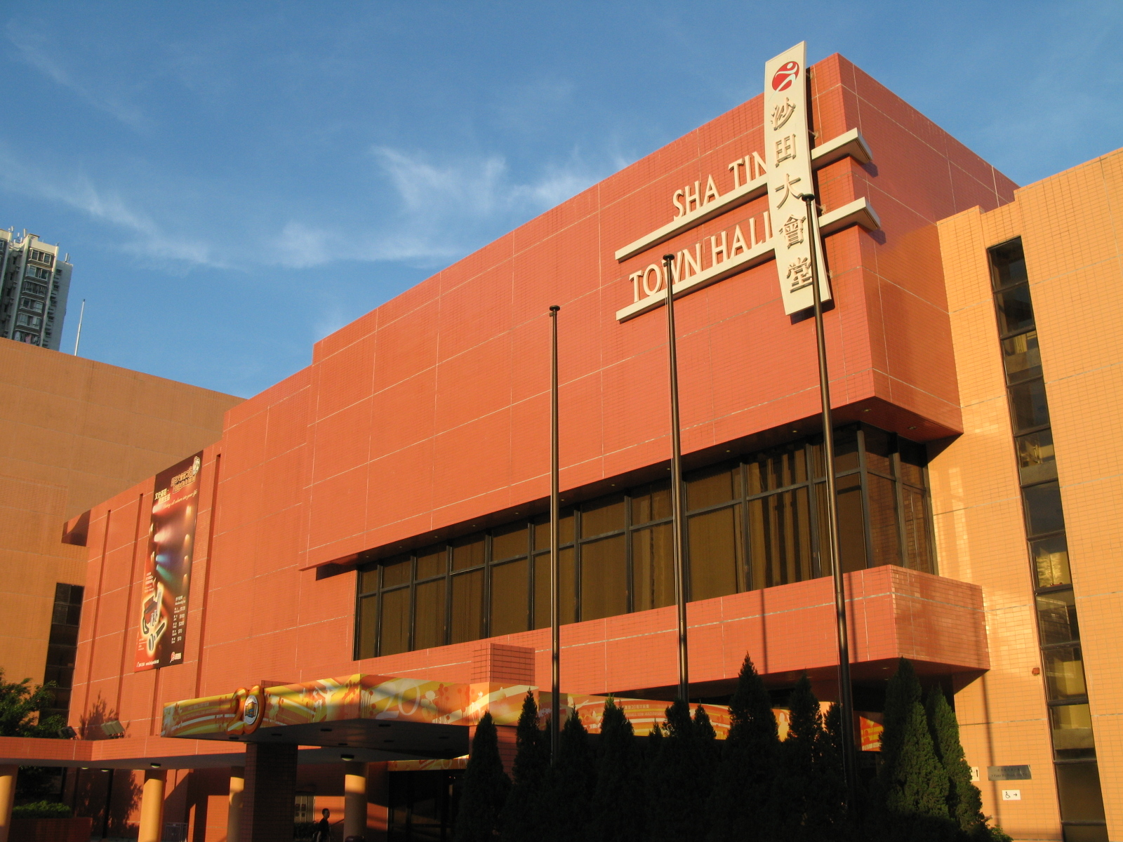 Shatin Town Hall